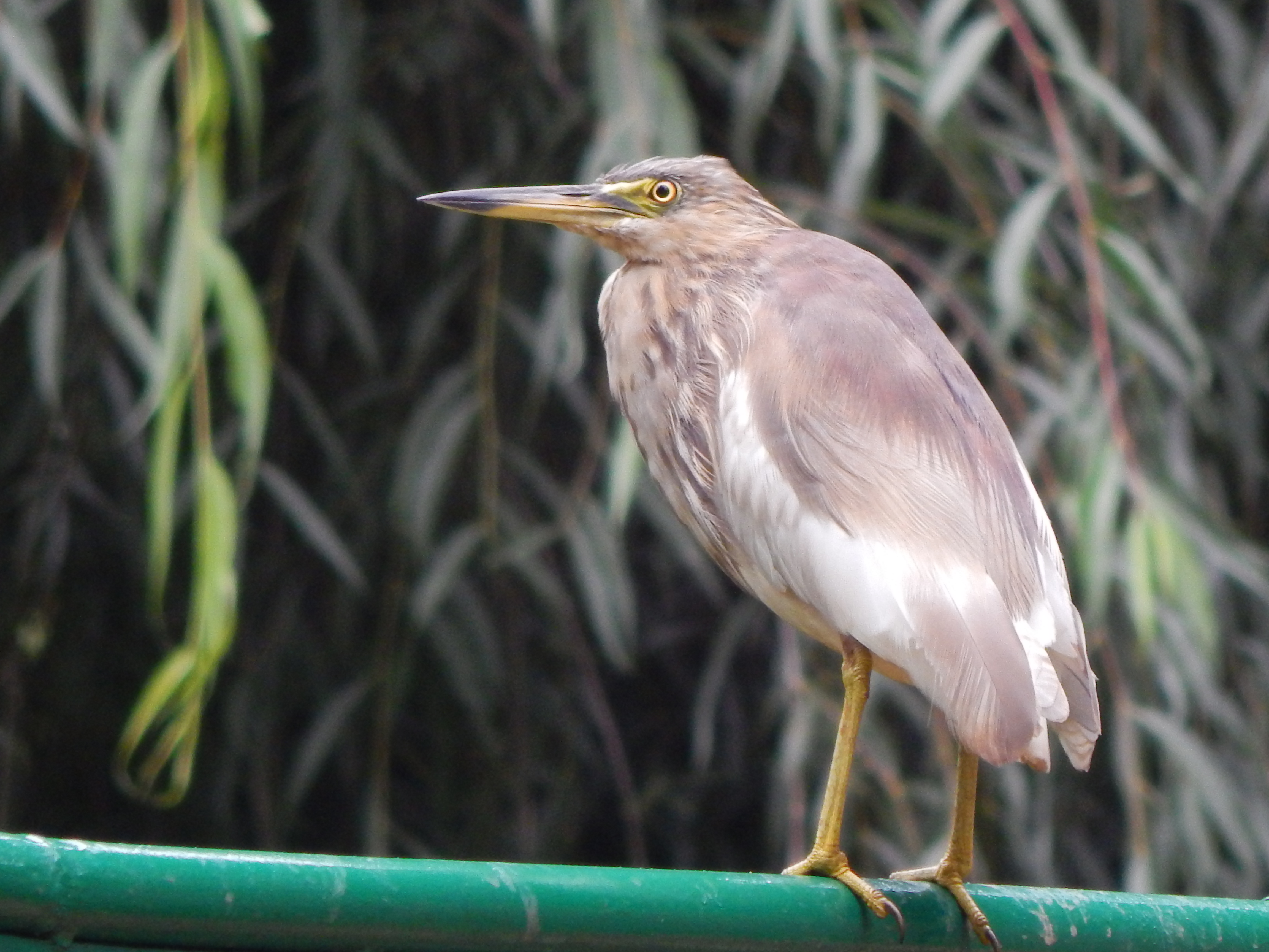 An Indian Pond Heron Ardeola grayii, sighted at the Botanical Gardens, Ooty (Nikon Coolpix - unedited)